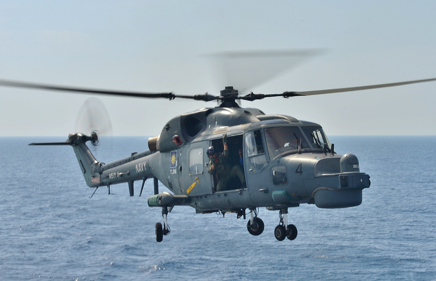 SOUTH CHINA SEA (June 18, 2013) A Royal Malaysian Navy Super Lynx prepares to land on the flight deck of USS Freedom (LCS 1) during deck landing qualifications (DLQs). The Super Lynx, call sign RENTAP, is the first foreign helicopter to ever land on Freedom. Freedom is in Malaysia participating in Cooperation Afloat Readiness and Training (CARAT) 2013. CARAT is a series of bilateral military exercises between the U.S. Navy and the armed forces of Bangladesh, Brunei, Cambodia, Indonesia, Malaysia, the Philippines, Singapore, Thailand and Timore Leste. (U.S. Navy photo by Mass Communication Specialist 1st Class Cassandra Thompson/Released)..A Royal Malaysian Navy Super Lynx helicopter prepares to land on the flight deck of the littoral combat ship USS Freedom (LCS 1) in the South China Sea during landing qualifications June 18, 2013, as part of Cooperation Afloat Readiness and Training (CARAT) 2013. The Super Lynx was the first foreign helicopter to land on the Freedom. CARAT is a series of bilateral exercises held annually in Southeast Asia to strengthen relationships and enhance force readiness. (U.S. Navy photo by Mass Communication Specialist 1st Class Cassandra Thompson/Released)..USN; CARAT 13; Foreign military; Super Lynx; Helicopter